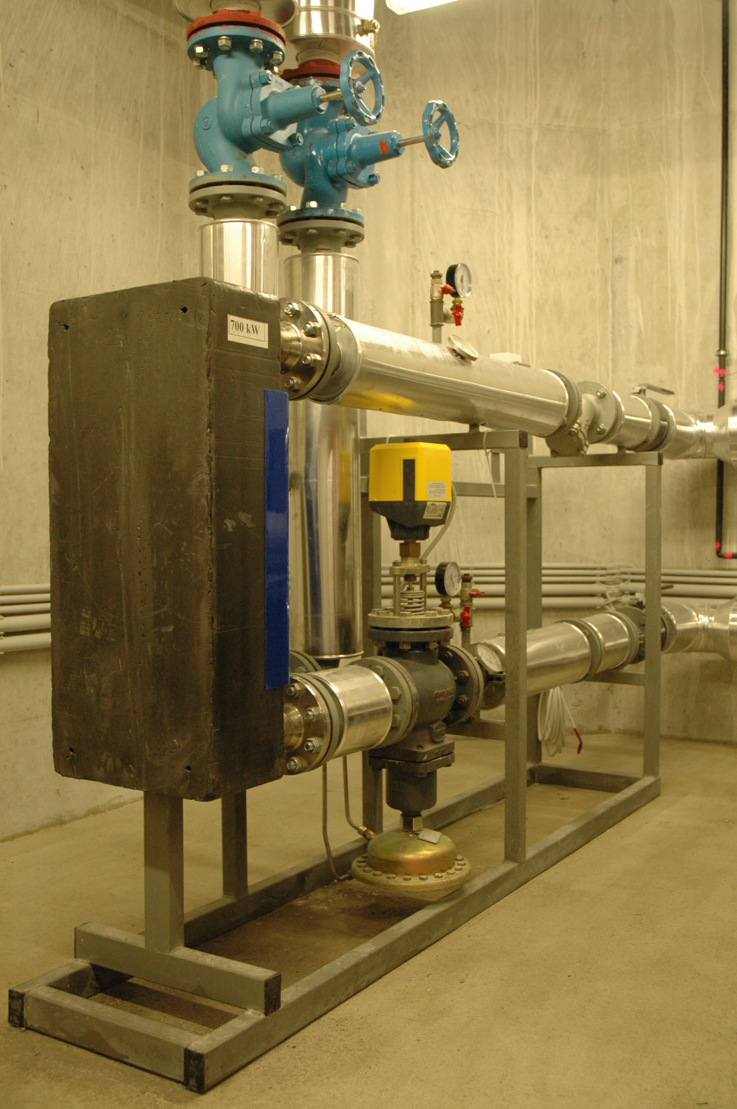 Heating station or Heat transfer station in a district heating